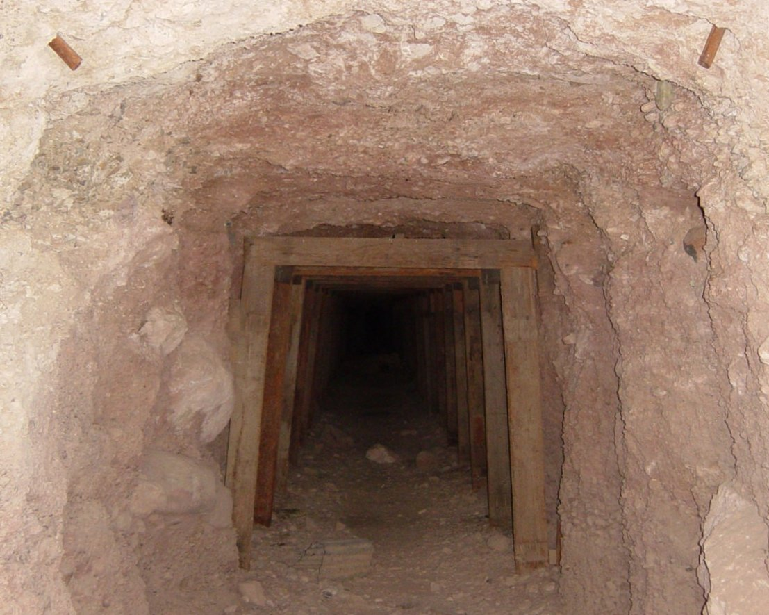 Timber roof support in californian mine.